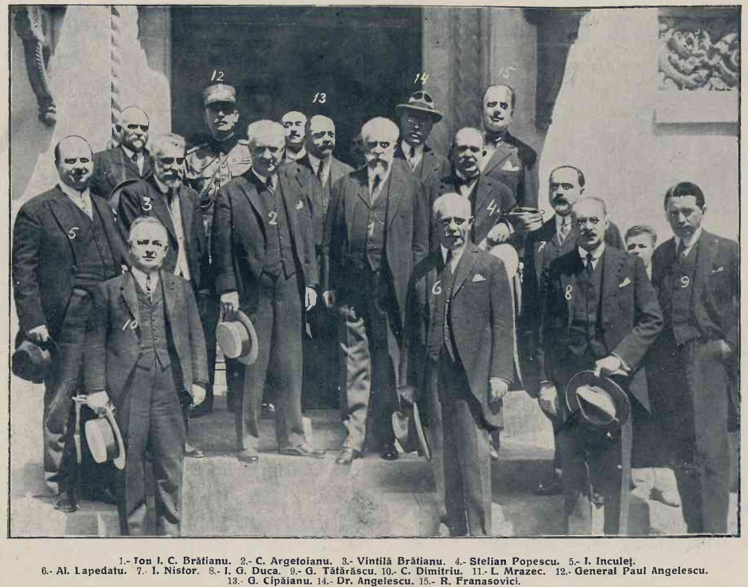 The Romanian Government led by Ion I. C. Brătianu, when it was voted in the Parliament.